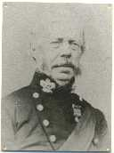 Severus William Lynam Stretton Born 1793 in Nottingham, Severus Stretton retired as a Lieutenant Colonel and died in 1884.